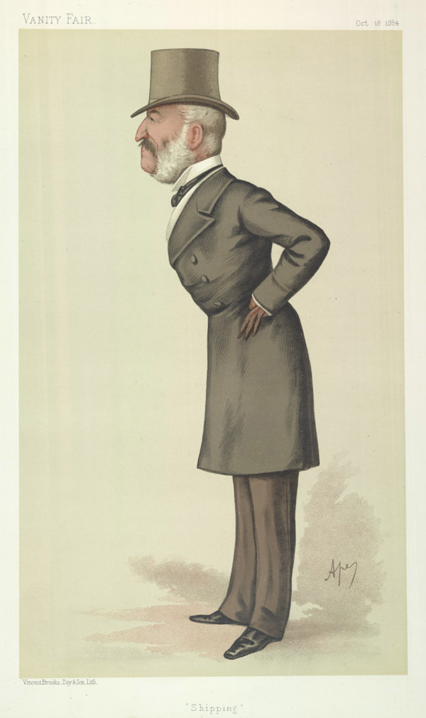 Statesmen No.453: Caricature of Mr CM Palmer MP. Caption reads: "Shipping"